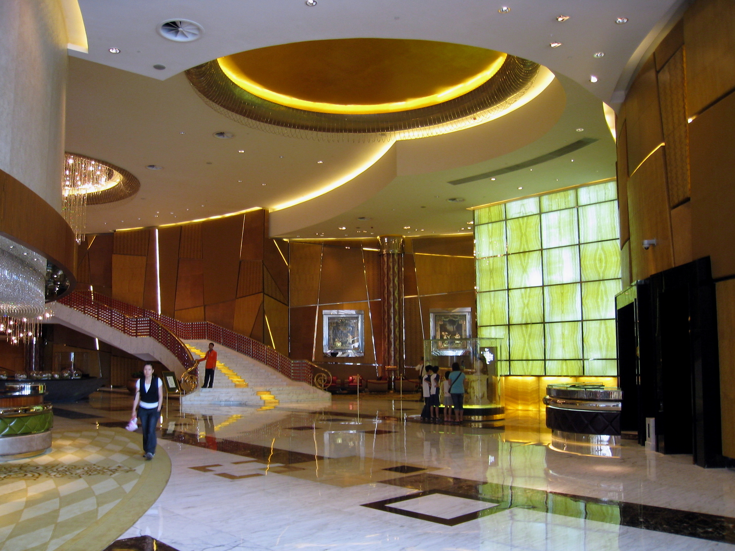 Grand Lisboa Lobby 新葡京